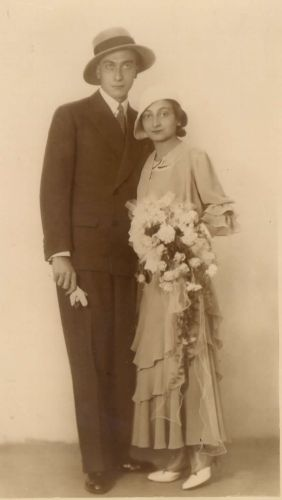 Ferdo Delak (1905-1968) with his wife Katja